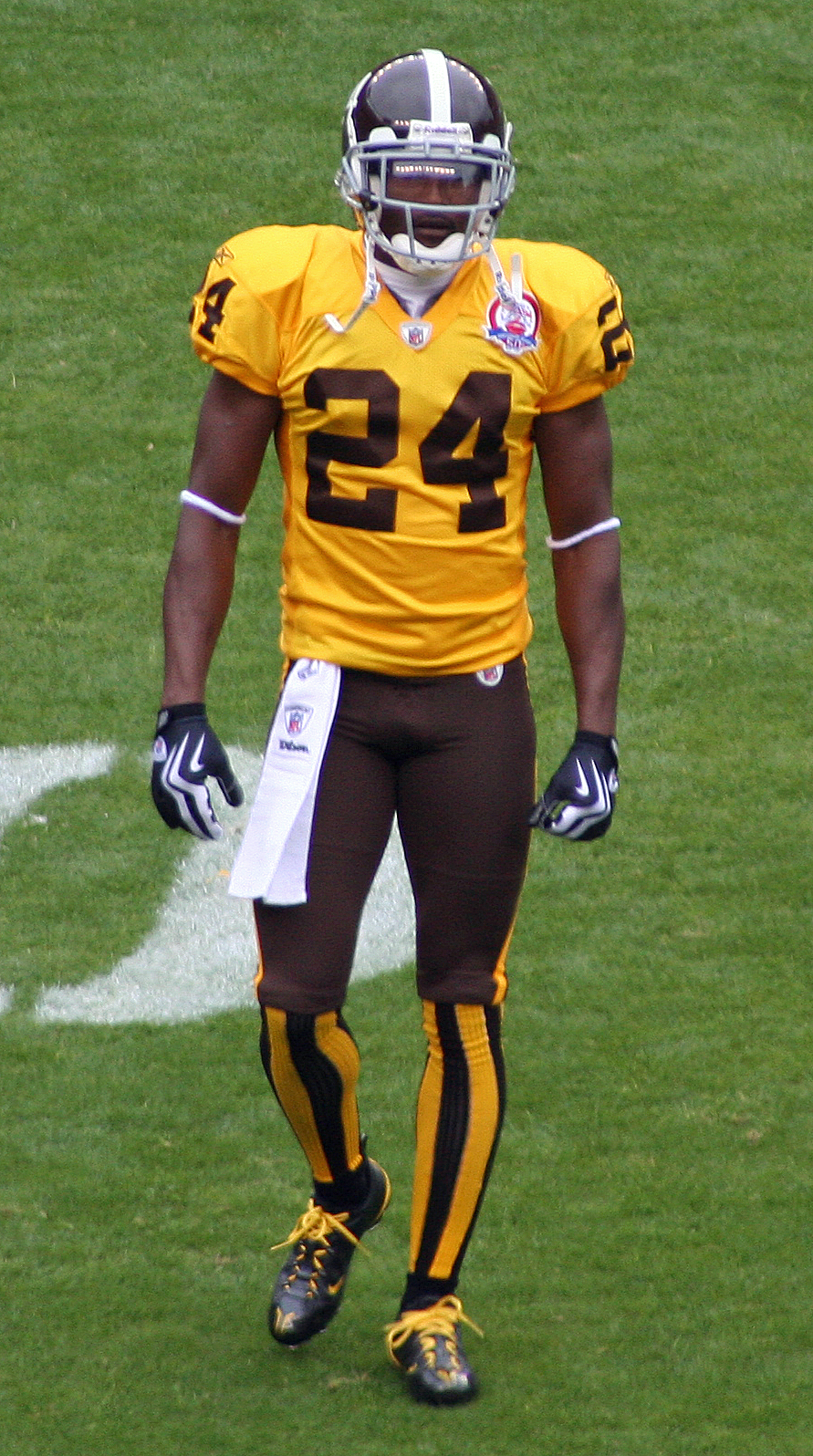 Champ Bailey, a player with the Denver Broncos American football team.